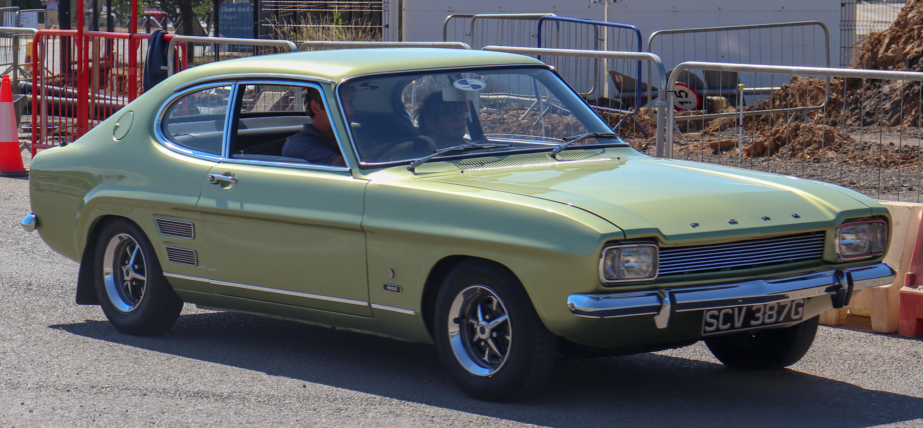 1969 Ford Capri Mark I 1.6 (One of the earliest Capris) Taken at the British Motor Museum Old Ford Rally 2018, Gaydon